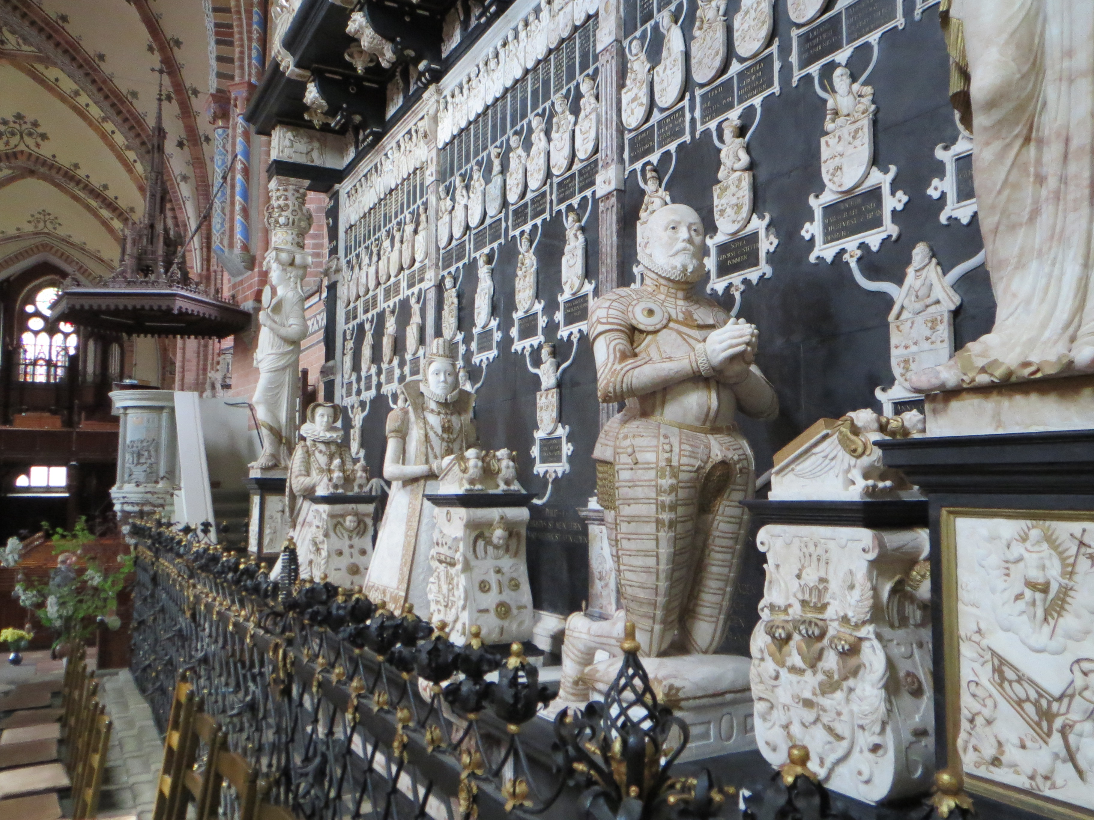 Grave od Ulrich, Duke of Mecklenburg and his 2 wives Elizabeth of Denmark, Duchess of Mecklenburg and Anna of Pomerania